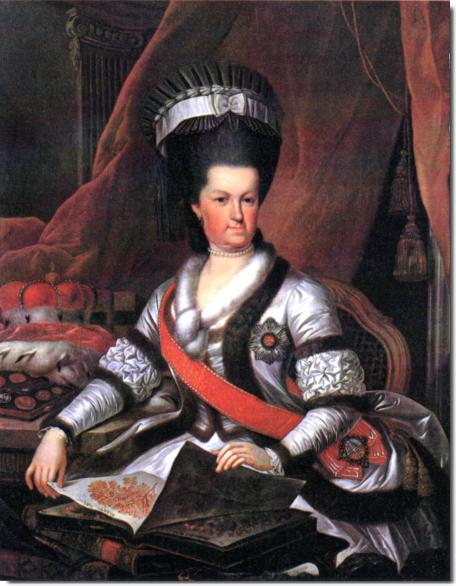 Portrait of Landgravine Caroline Louise of Hesse-Darmstadt (1723-1783)